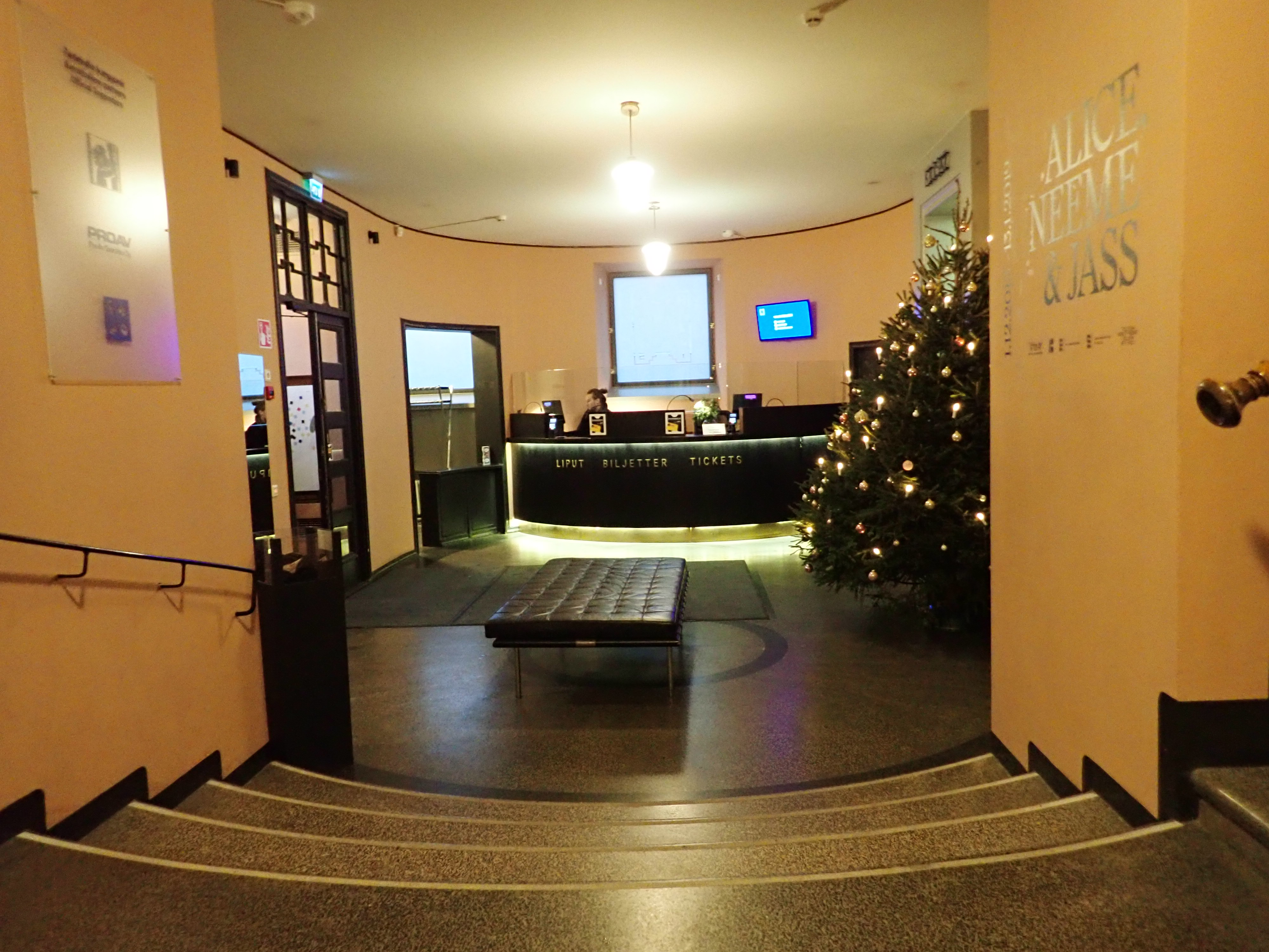 Helsinki Art Hall - entrance hall, 18 december 2018